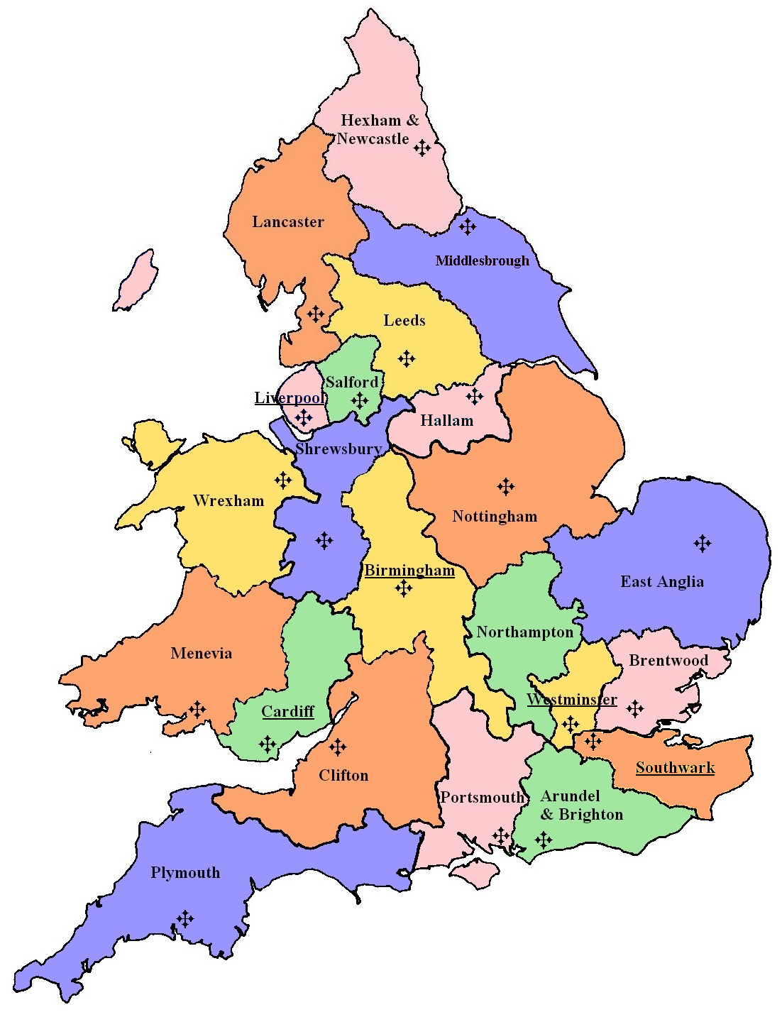 Map of the Roman Catholic Dioceses of England and Wales, including the Isle of Man. Names of archdioceses are underlined.